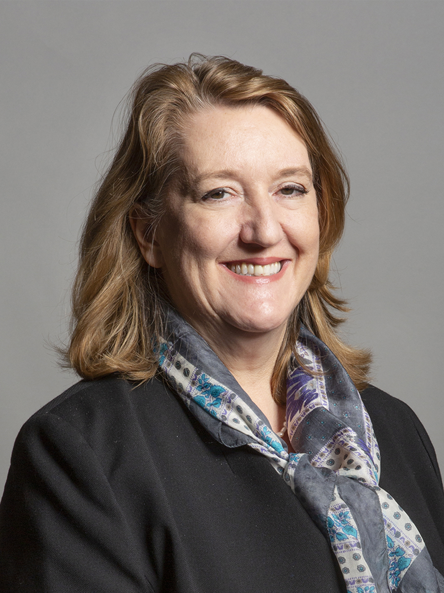 Official portrait of Miss Sarah Dines MP 3×4 portrait of Miss Sarah Dines